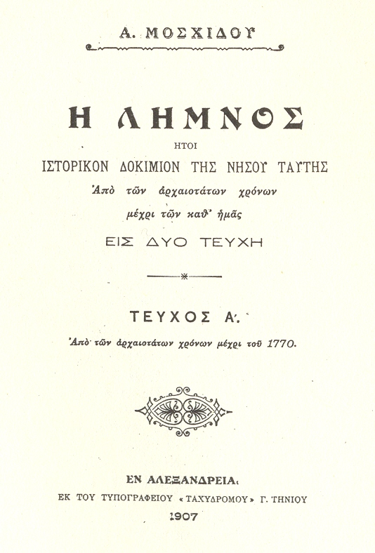 Civer of bokk Lemnos by Argyrios Moschidis